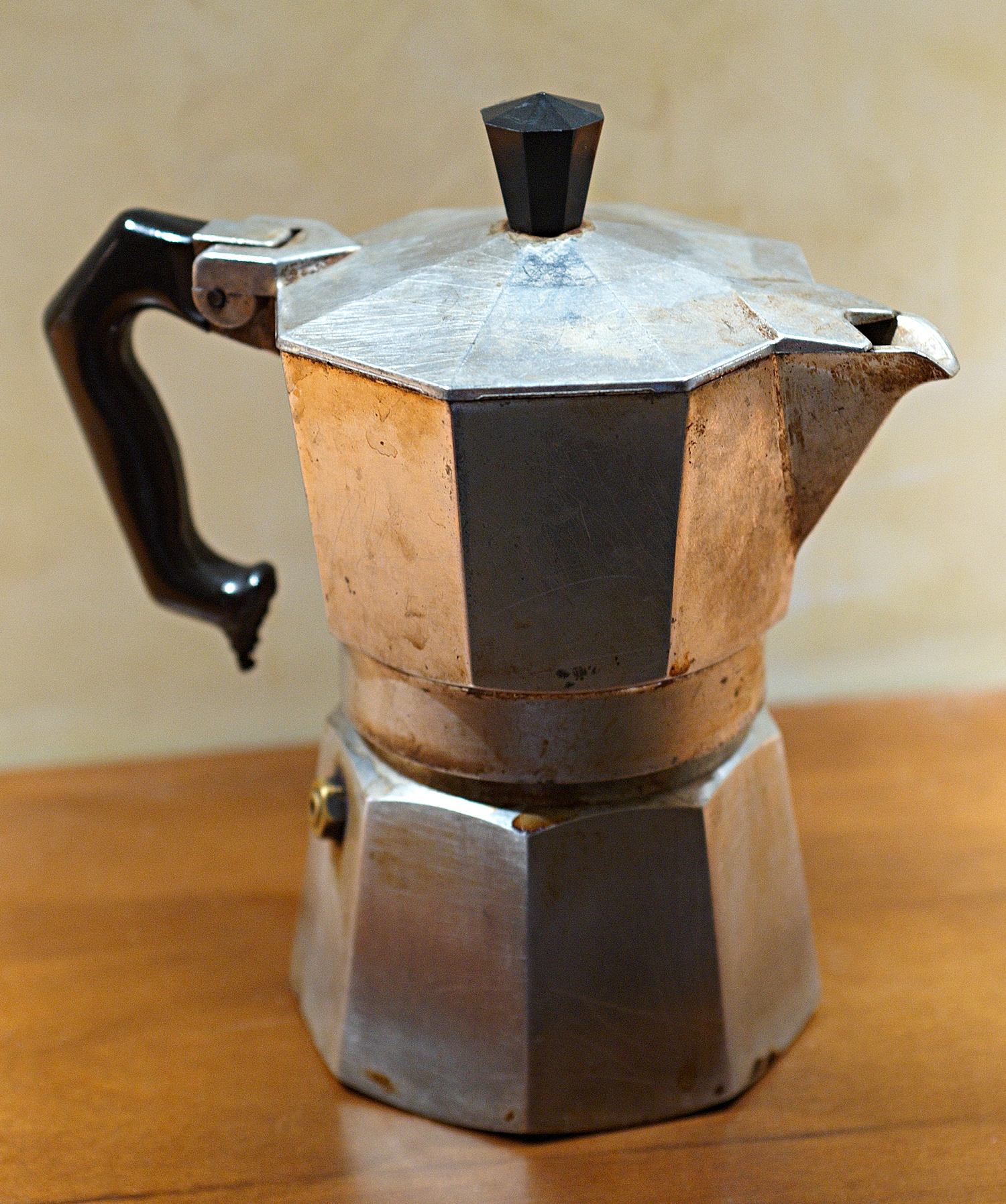 Used moka pot